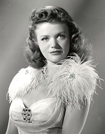 Simone Simon, promotional image for Cat People